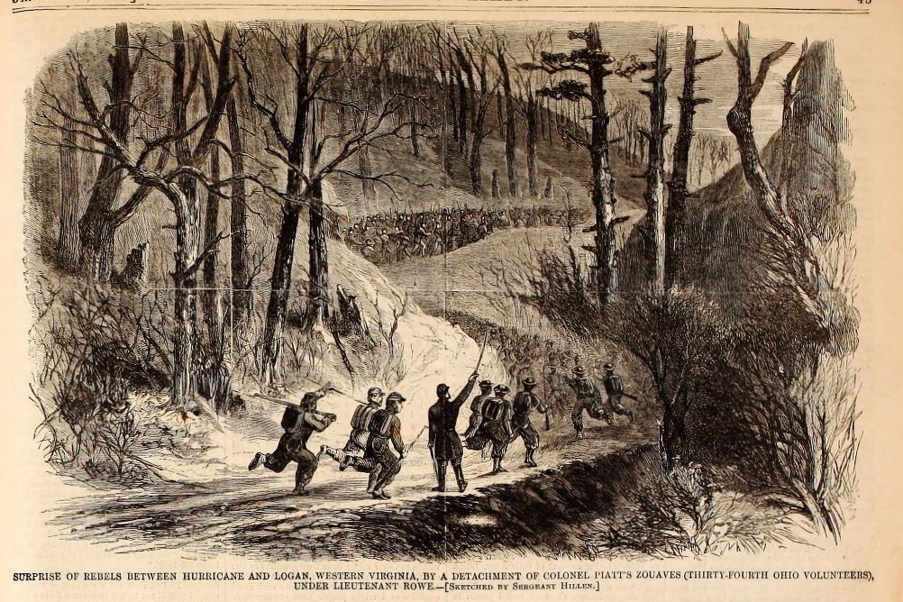 An illustration from Harper's Weekly, January 18, 1862, showing Ohio soldiers attacking a group of Confederate soldiers in Logan County, western Virginia